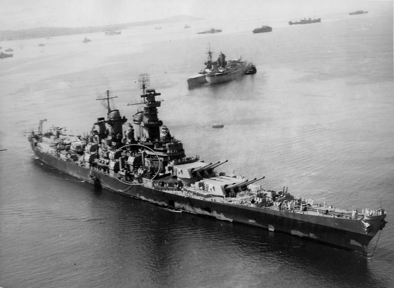 USS Iowa in Port Mers-el-Kébir.